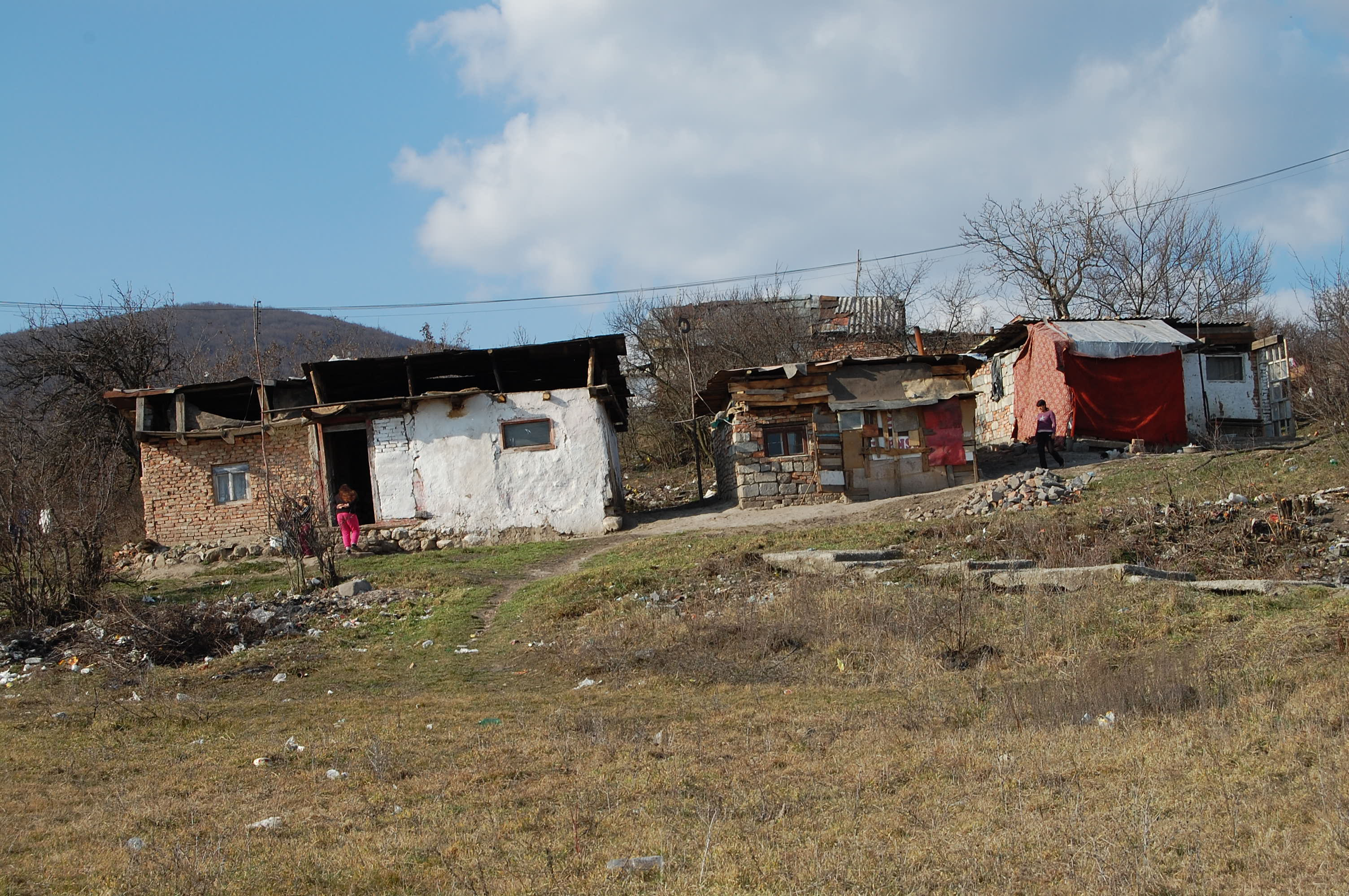 Roma settlement, built without build permission in Slovakia